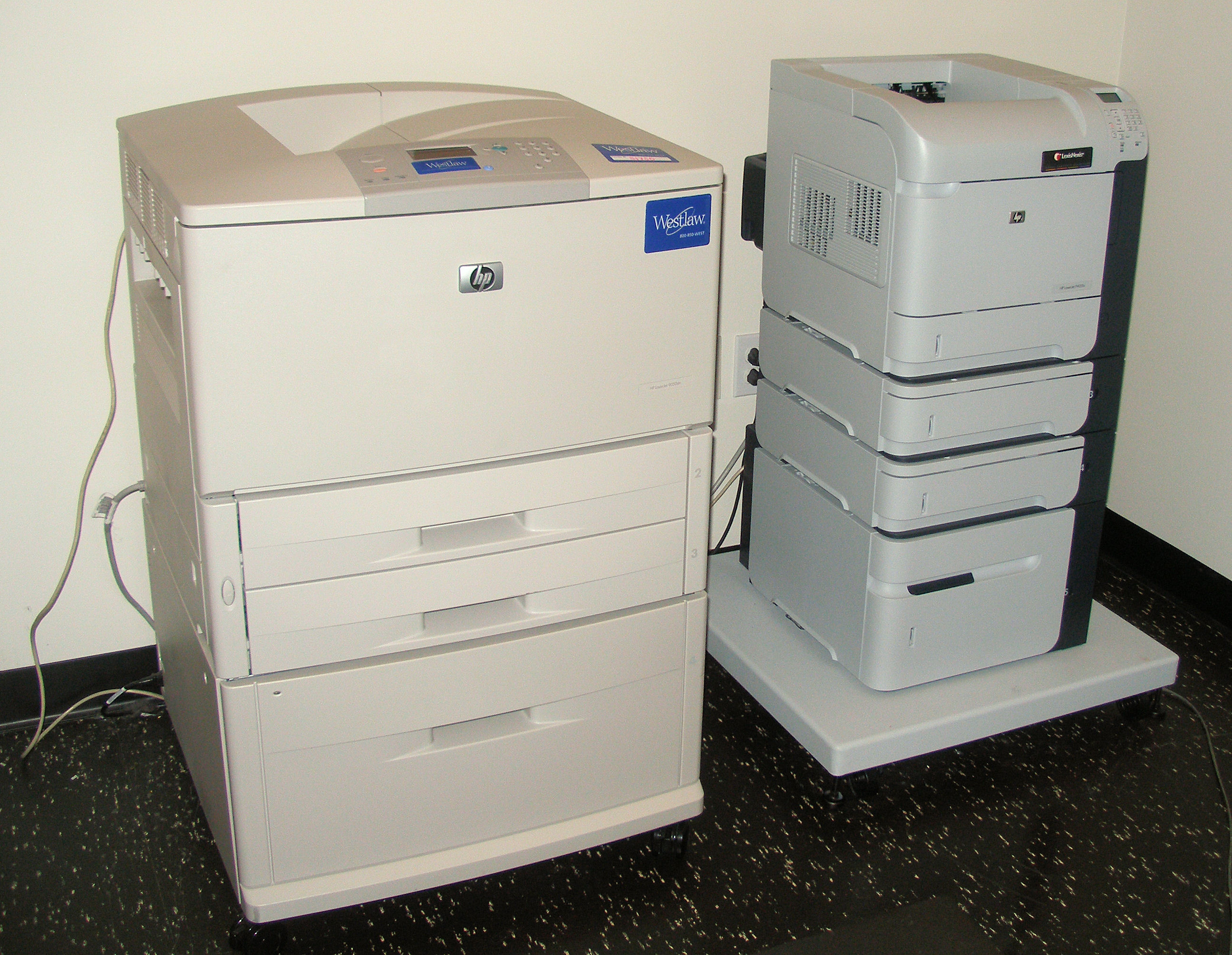 At almost every law school in the United States, there is a pair of laser printers like these, one operated by Westlaw, one operated by LexisNexis. Students can use their Westlaw and LexisNexis accounts to print research for free to these printers. Photographed in San Francisco.